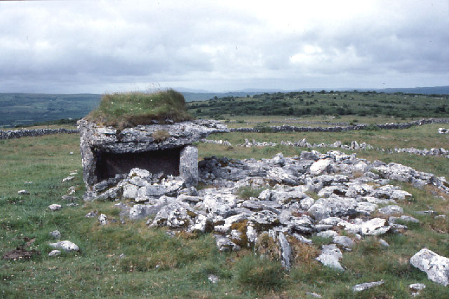 Wedge tomb at Parknabinnia. One of the hundreds of archaeological sites in The Burren.